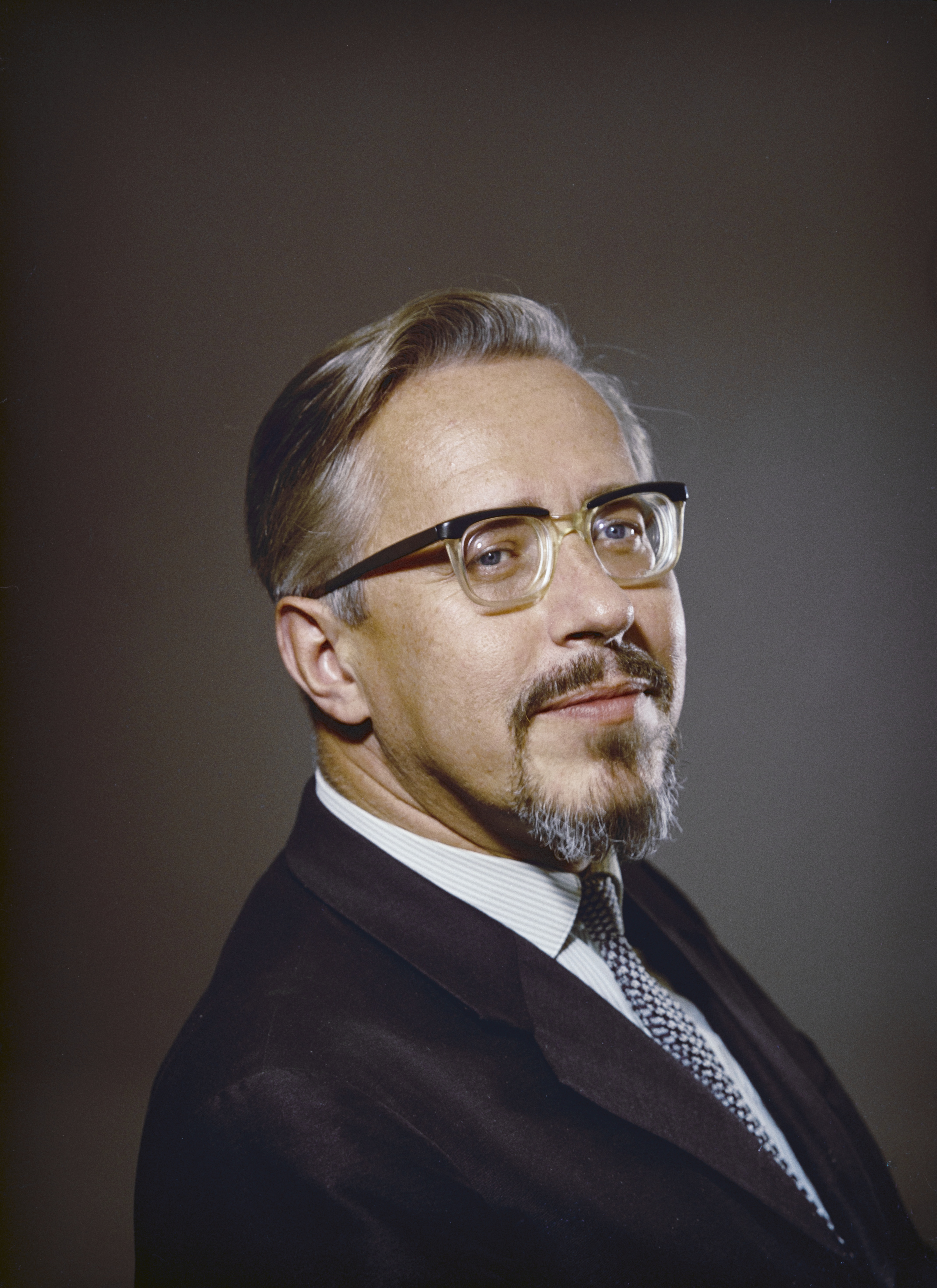 Photograph of the Finnish photographer and chemist Raimo Hallama (1921–1994).